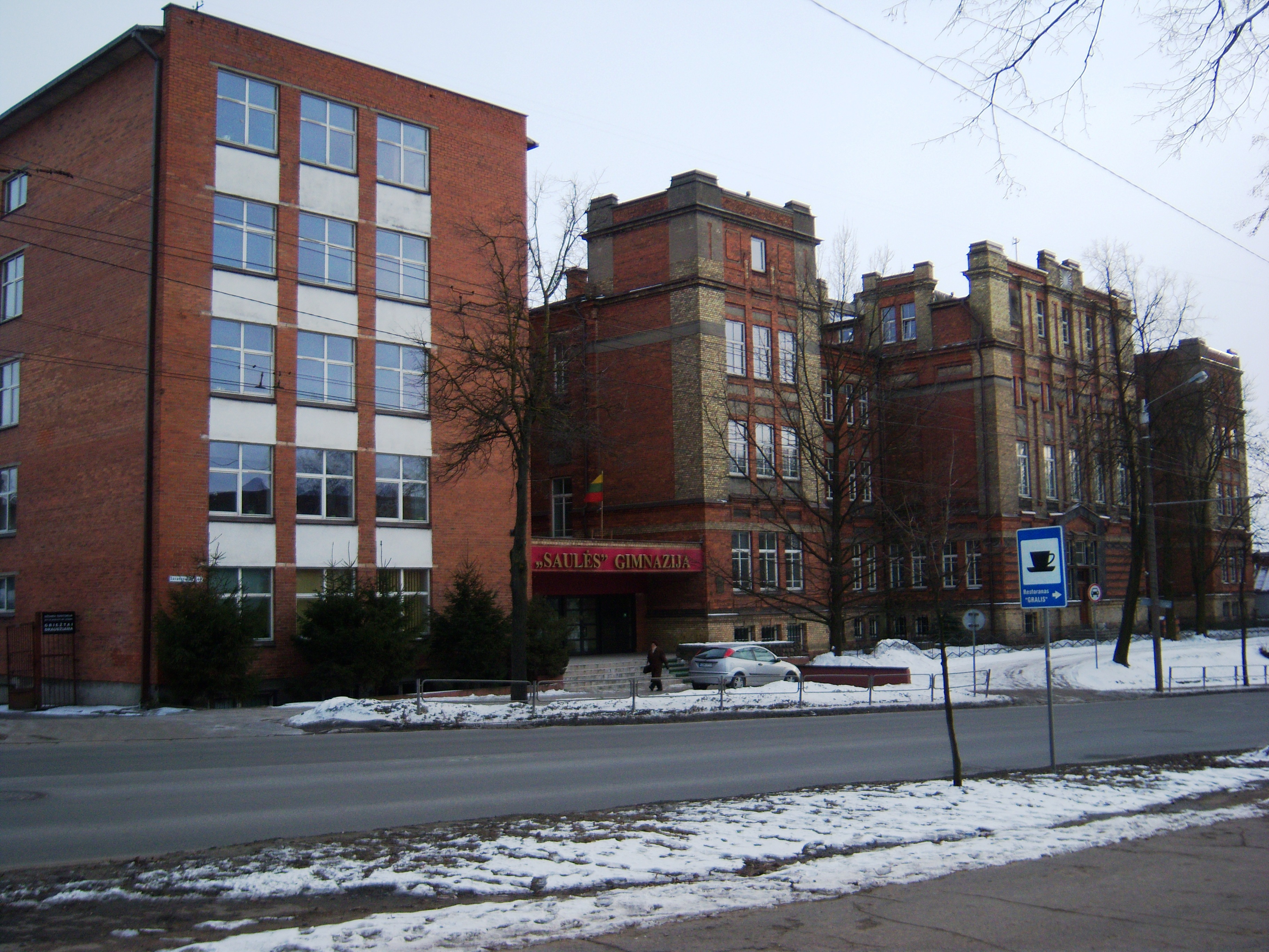 Saulės gymnasium, Kaunas, Lithuania